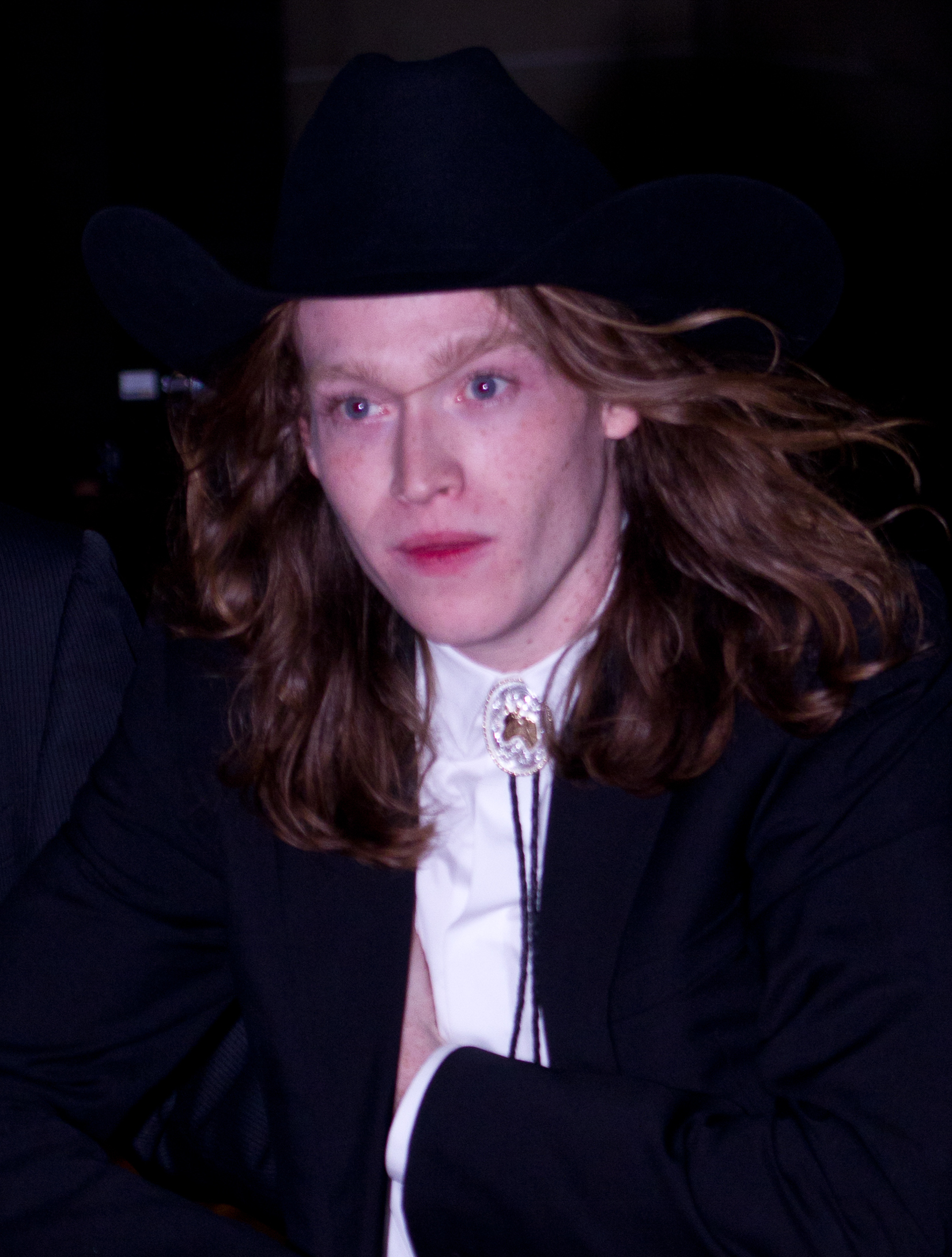 Caleb Landry Jones at the Toronto International Film Festival 2012.